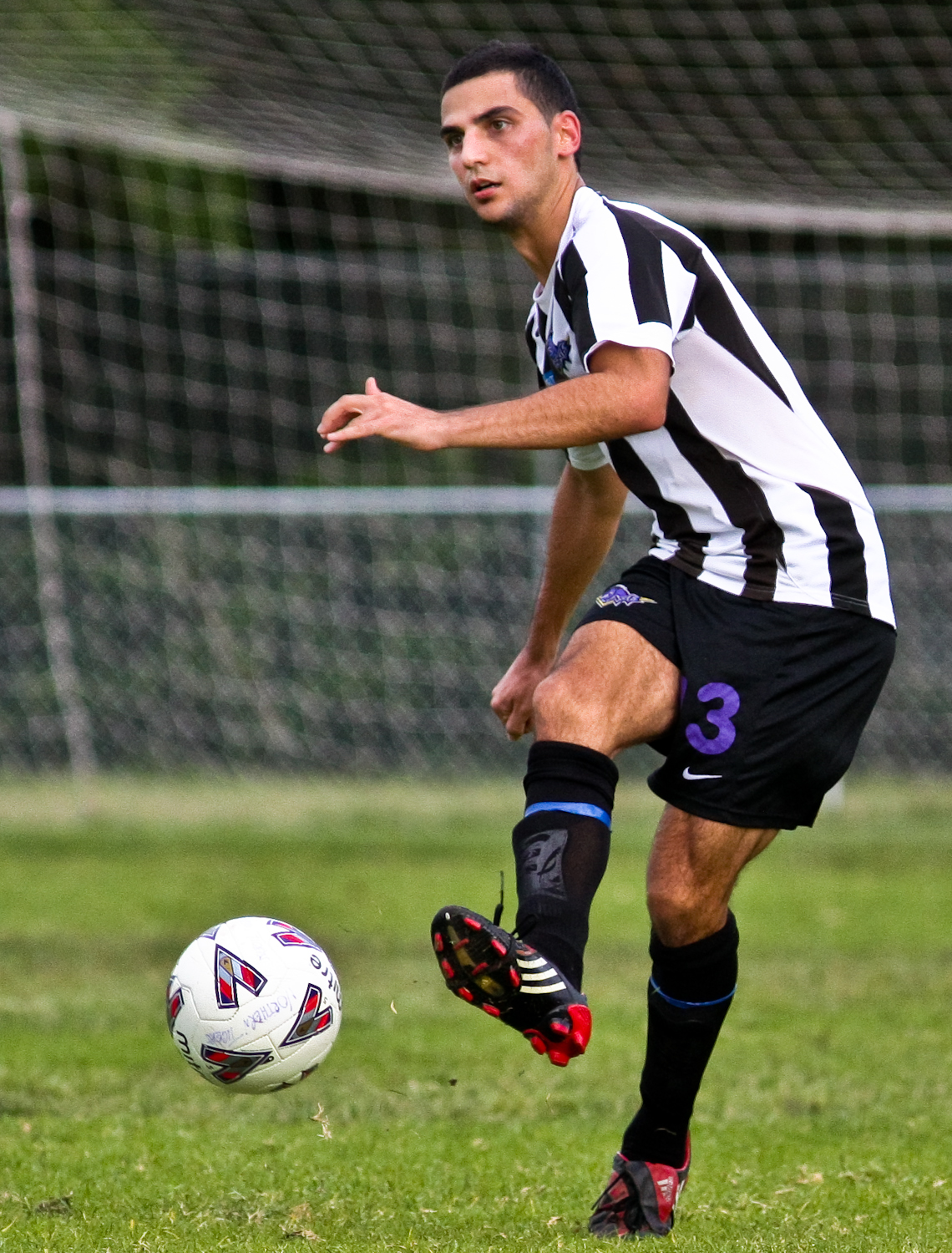 David Carrozza playing for the Granville Rage in round 5 of the 2009 NSW Super League.